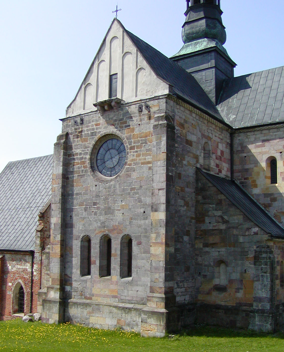 Saint Thomas church in Sulejów Monastery